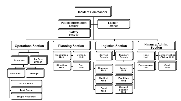 Retrieved from page 7.